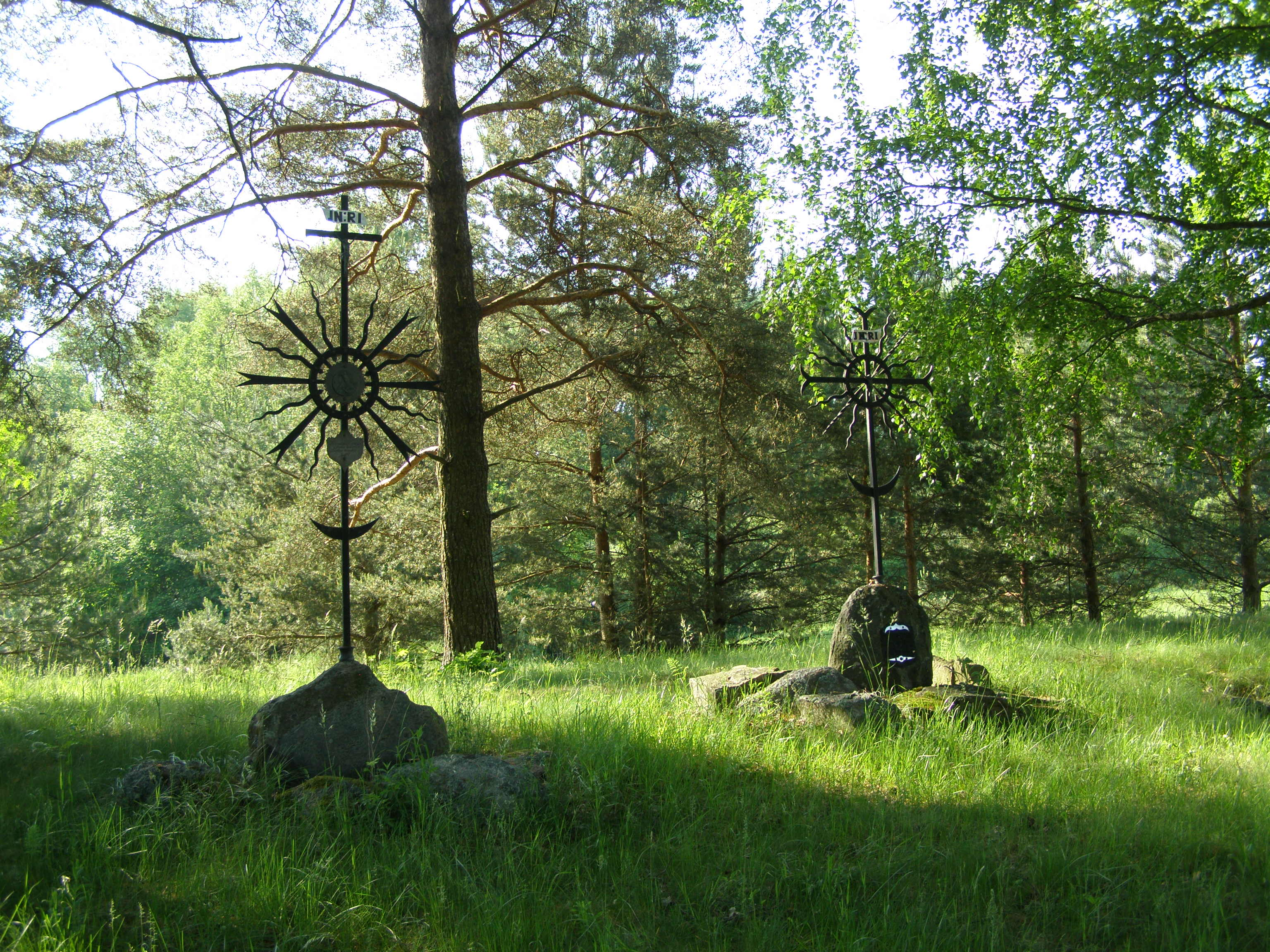 Juodupenai cemetery, Kretinga district, Lithuania